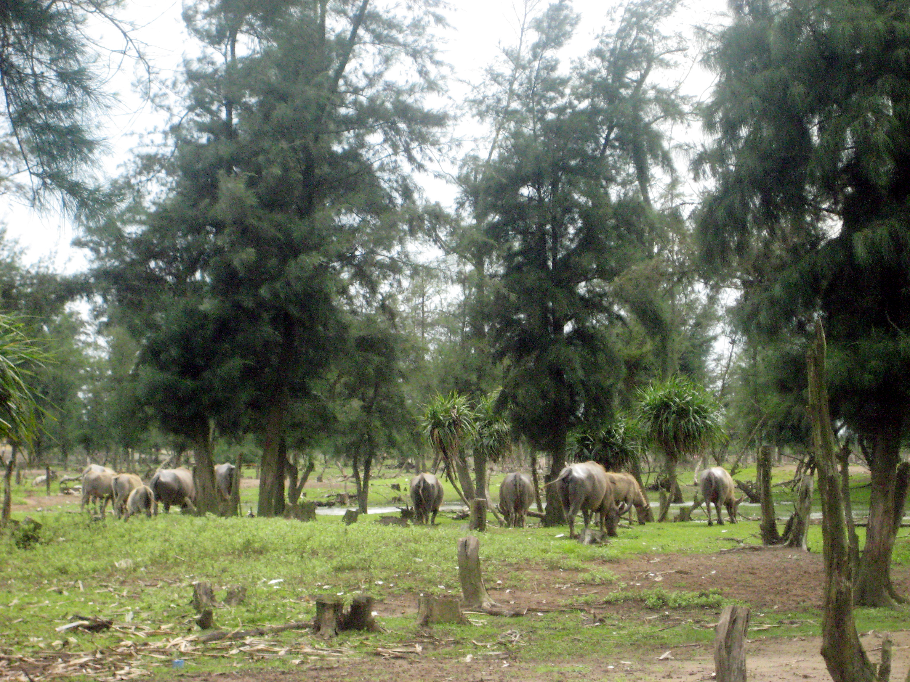 Illegal crazing of buffalos destroyed the core zone of the National Park.